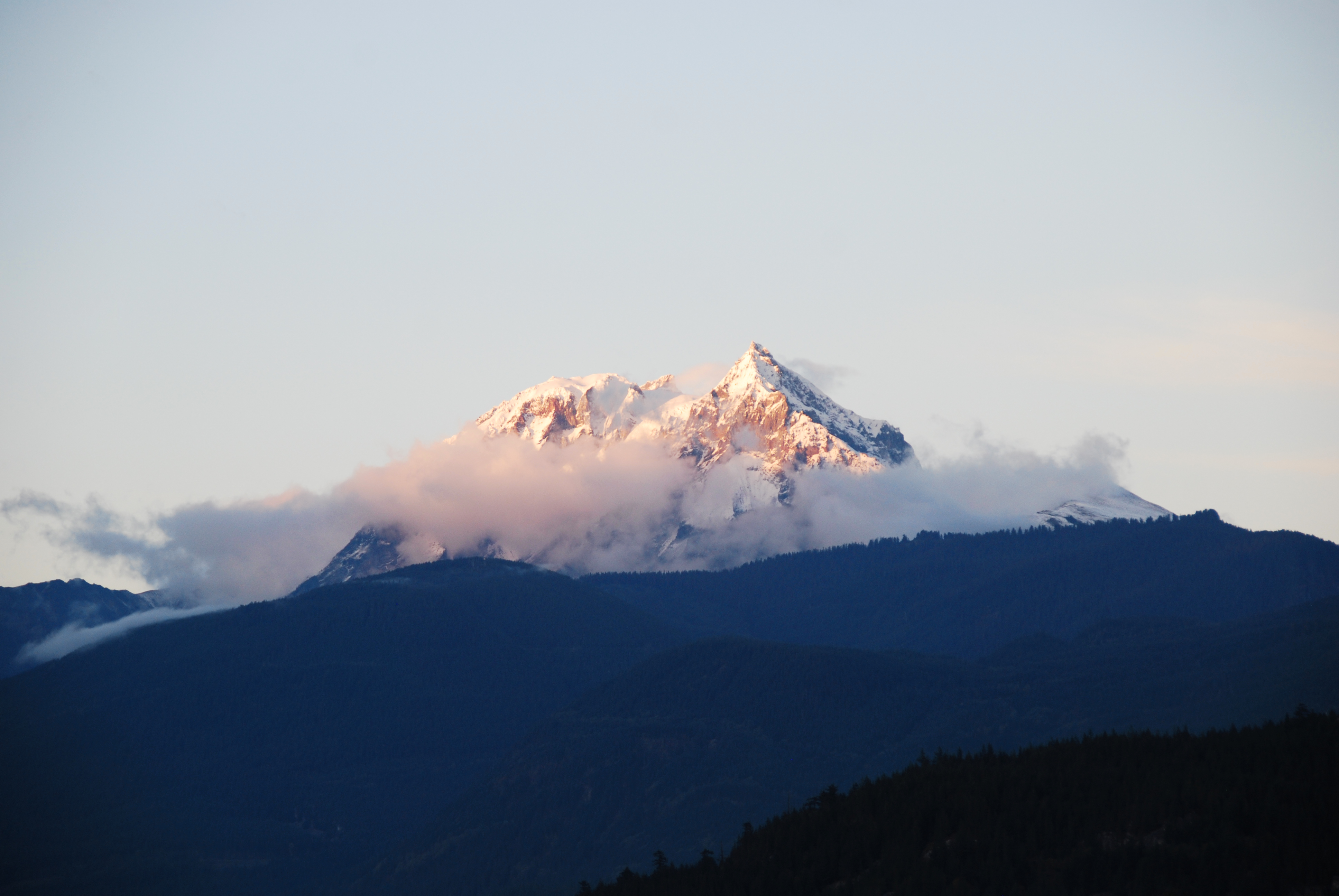 Mount Garibaldi, a potentially active stratovolcano in British Columbia, as seen from Squamish.